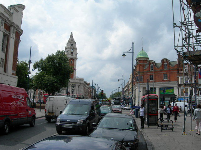 Coldharbour Lane, SW9 (2). At the junction of Brixton Road, looking towards Lambeth Town Hall 18294 and into Acre Lane. It is the opposite view to this picture 220882